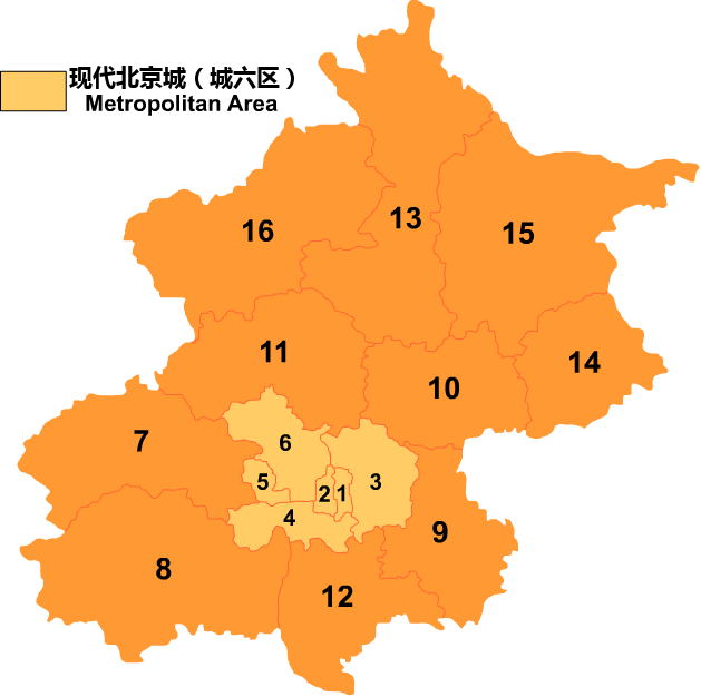 Map of Beijing